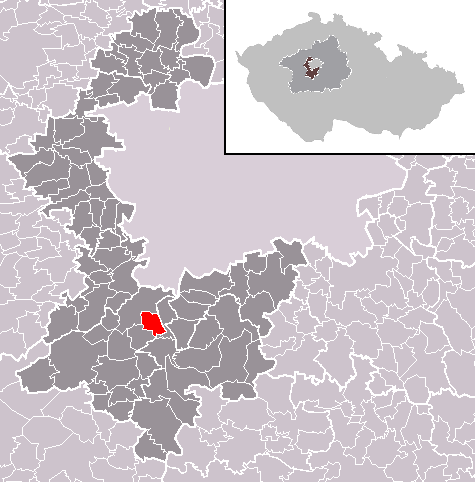 Location of Trnová municipality within Prague-West District and administrative area of Černošice as a Municipality with Extended Competence.